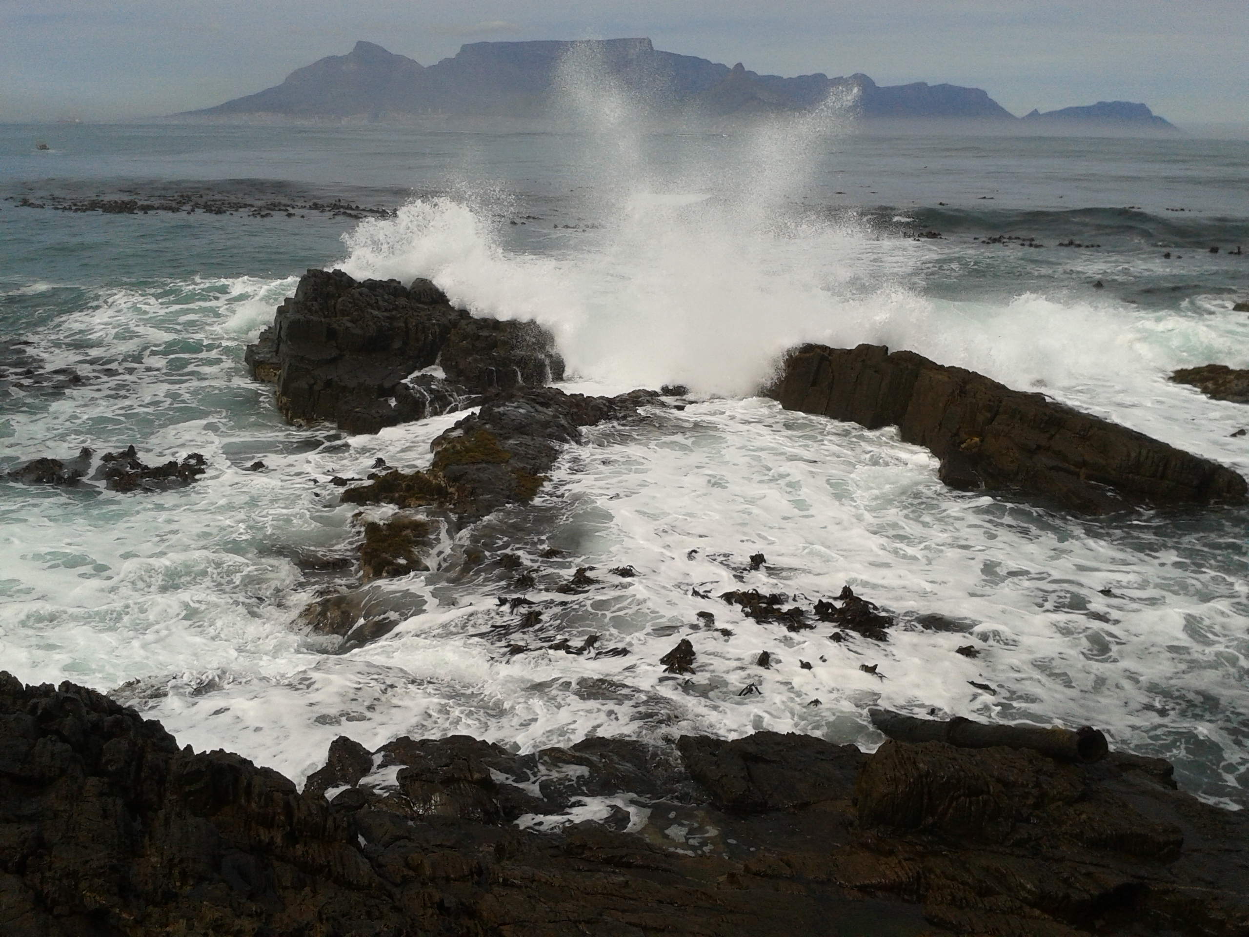 Breaking waves on Robben Island coast overlooking the Table Mountain.